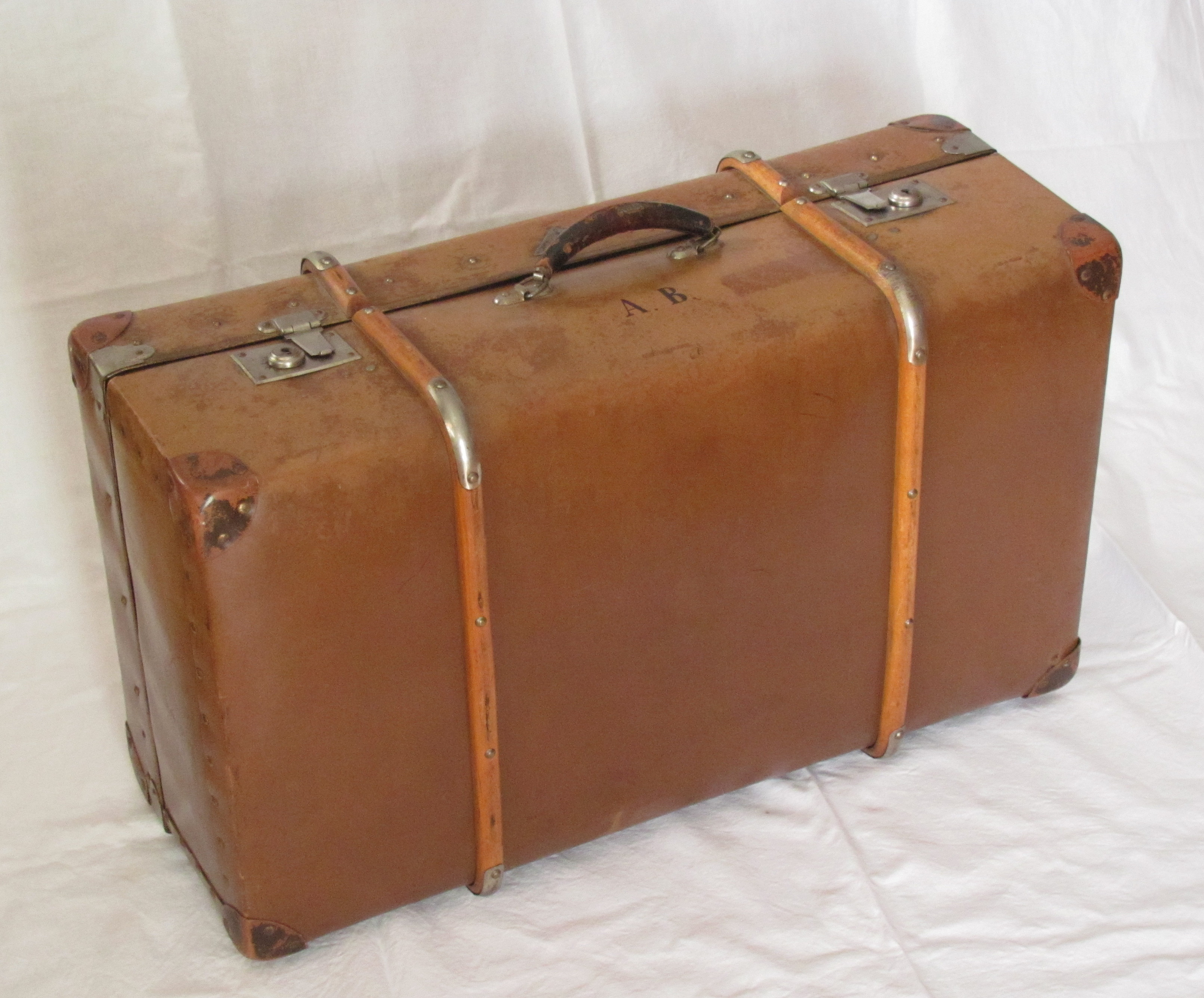 A suitcase made of vulcanized fibre